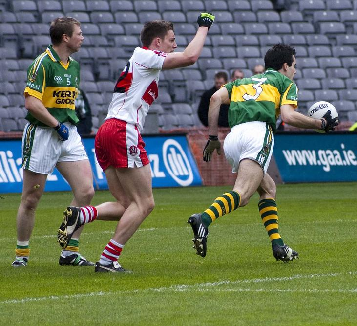 Tomás Ó Sé, James Kielt and Tom O'Sullivan in action in the 2009 National League final. (Cropped version).